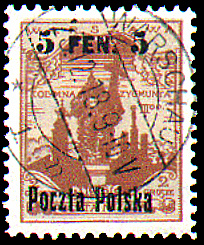 Overprinted stamp of the Warsaw Municipal Post. Issue for the area of German occupation of the former Russian partition. Mi2.